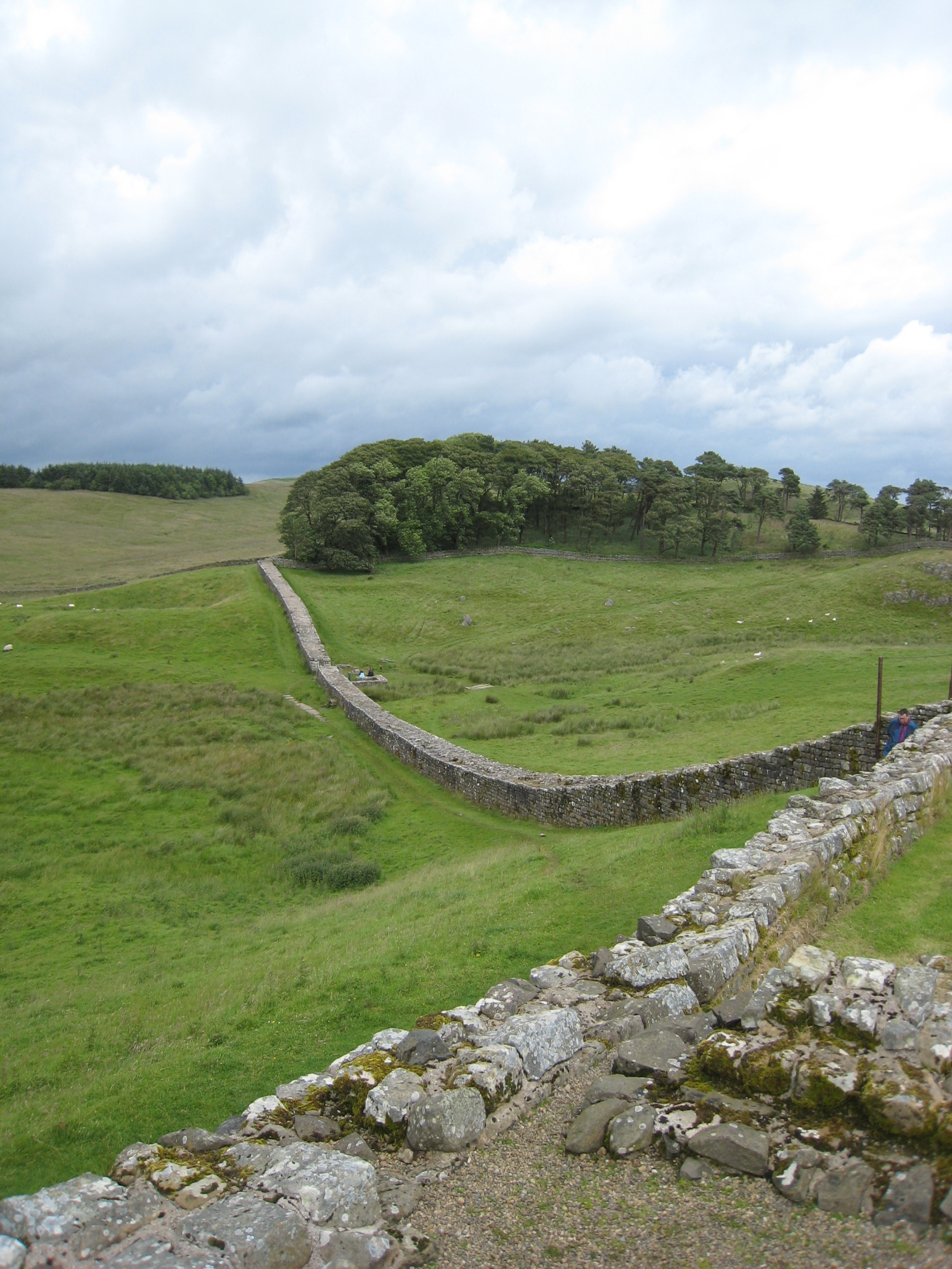 A stretch of Hadrian's Wall viewed from Vercovicium near Housesteads in Northumberland, Date: 2007